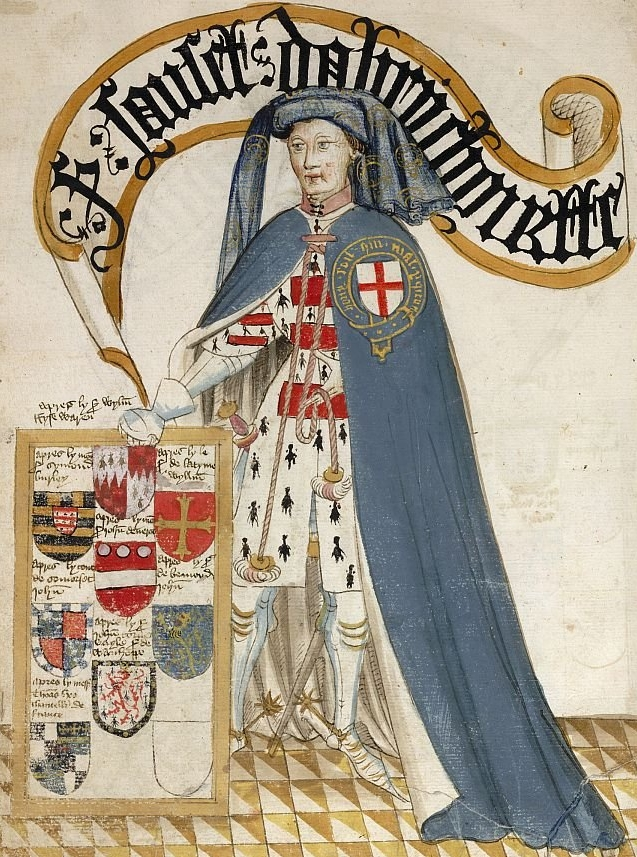 Sanchet d'Abrichecourt KG from the Bruges Garter Book, 1430/1440, BL Stowe 594